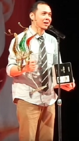 Jerrold Tarog, Filipino film director, writer, producer, score composer.